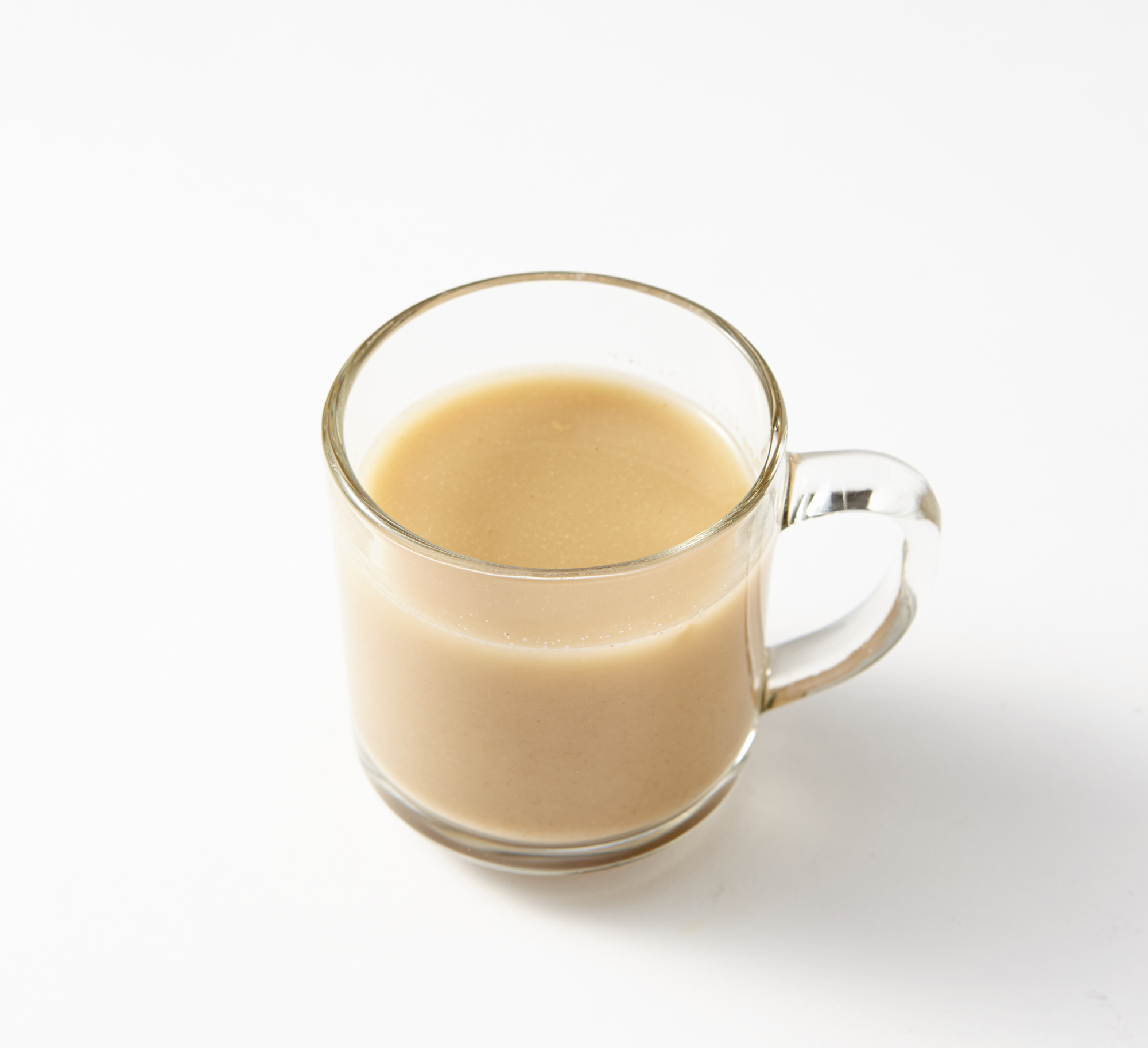 Misu (multigrain drink)